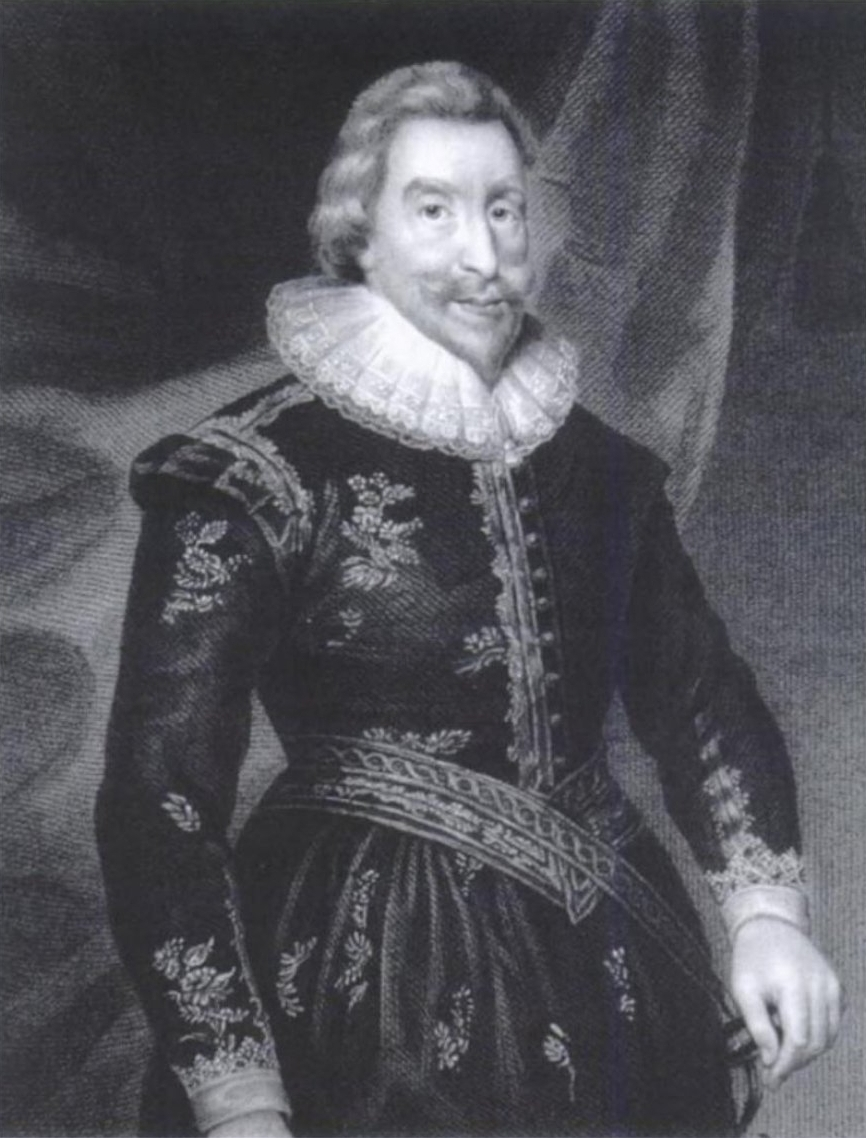 "Walter Aston, 2nd Baron Aston," (who was also also known as Walter Aston, 1st Lord Aston of Forfar), stipple engraving by R. Cooper after unknown artist.